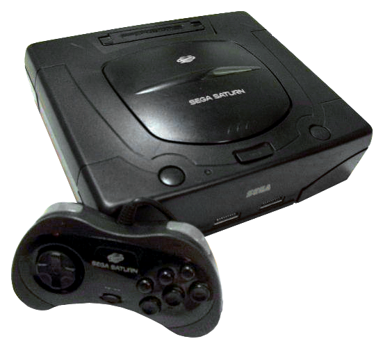 Saturn Console